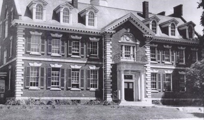 A picture of Samuel Ready School.